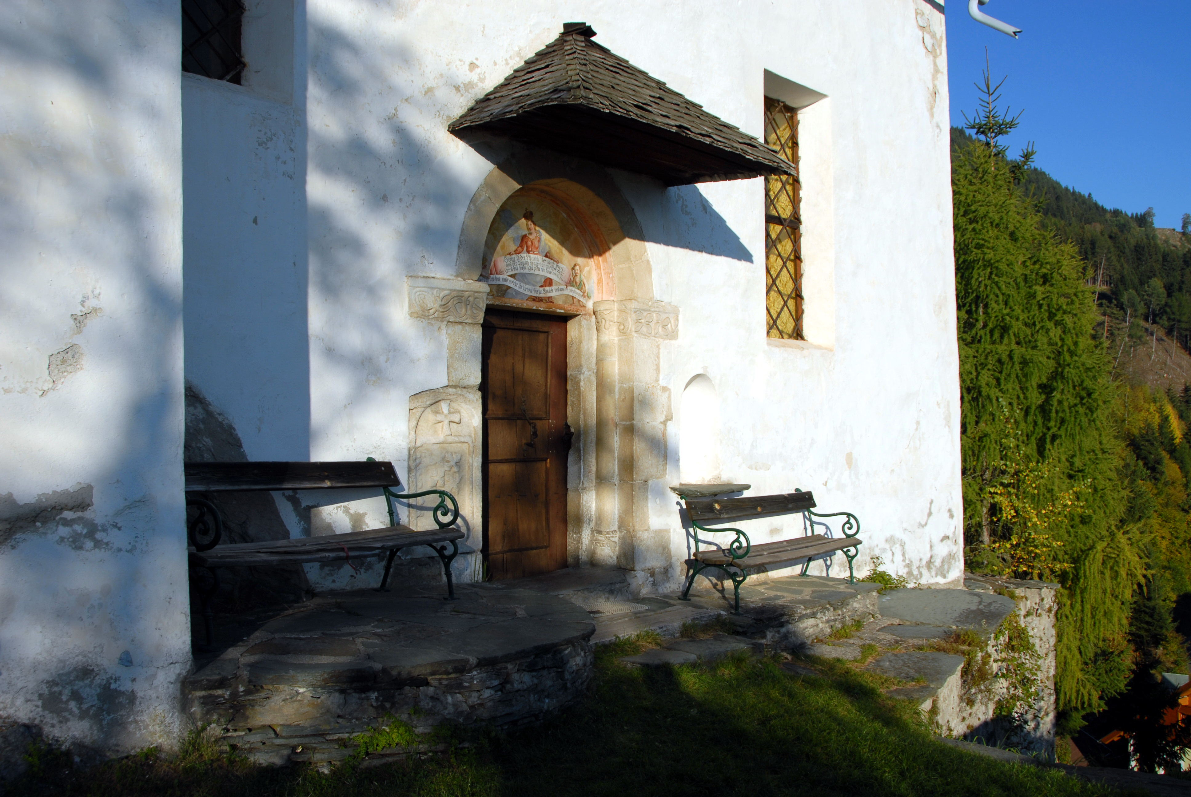 Church Maria in Hohenburg in the community of Lurnfeld, Carinthia, Austria